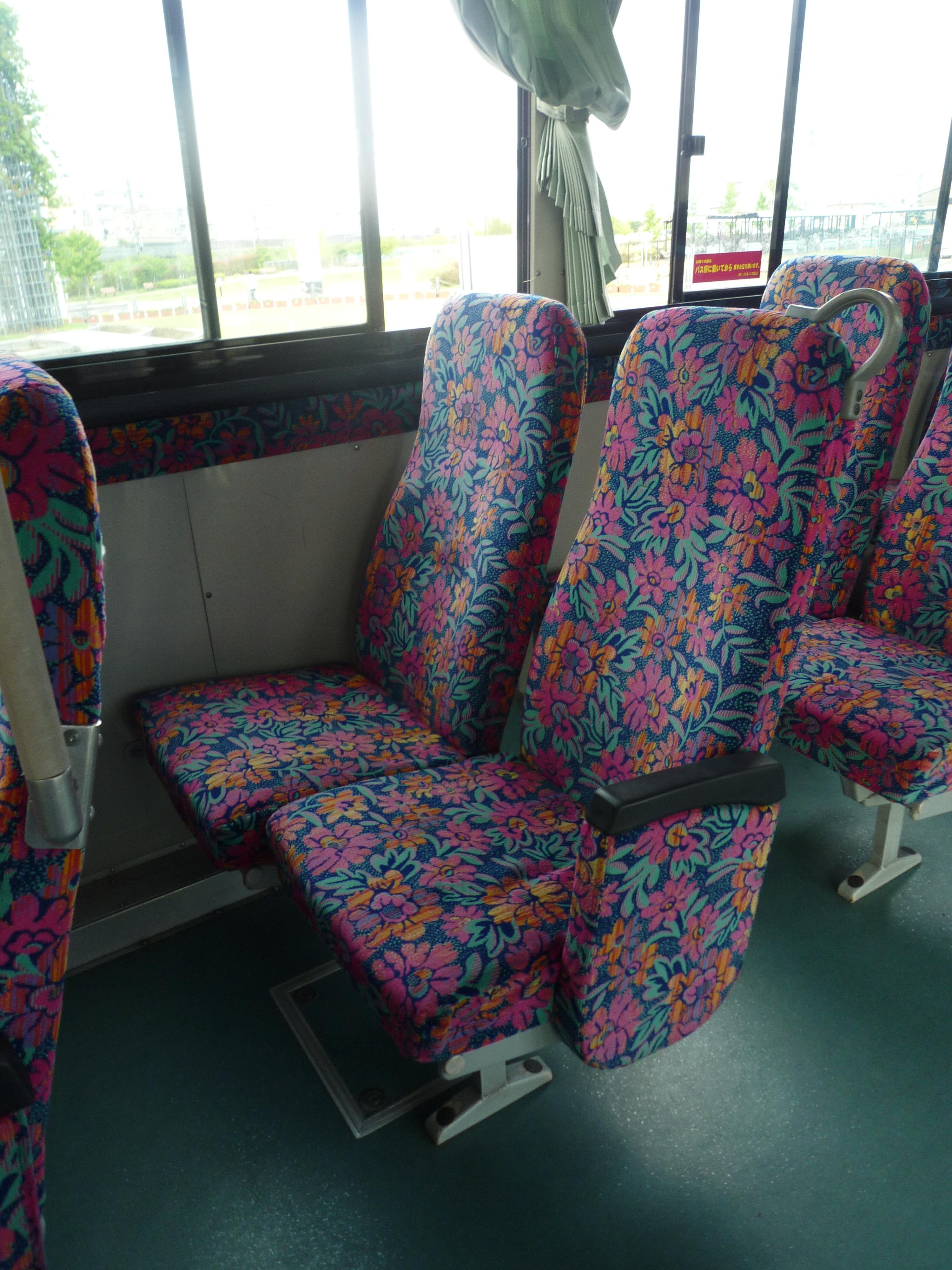 Entetsubus